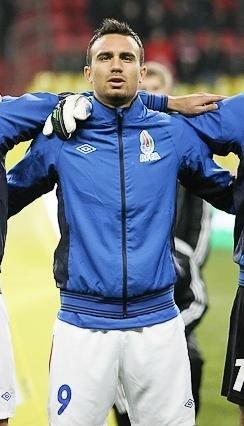 Cihan Özkara playing for Azerbaijan in an 2014 FIFA World Cup qualifier against Russia in Moscow in 2012.